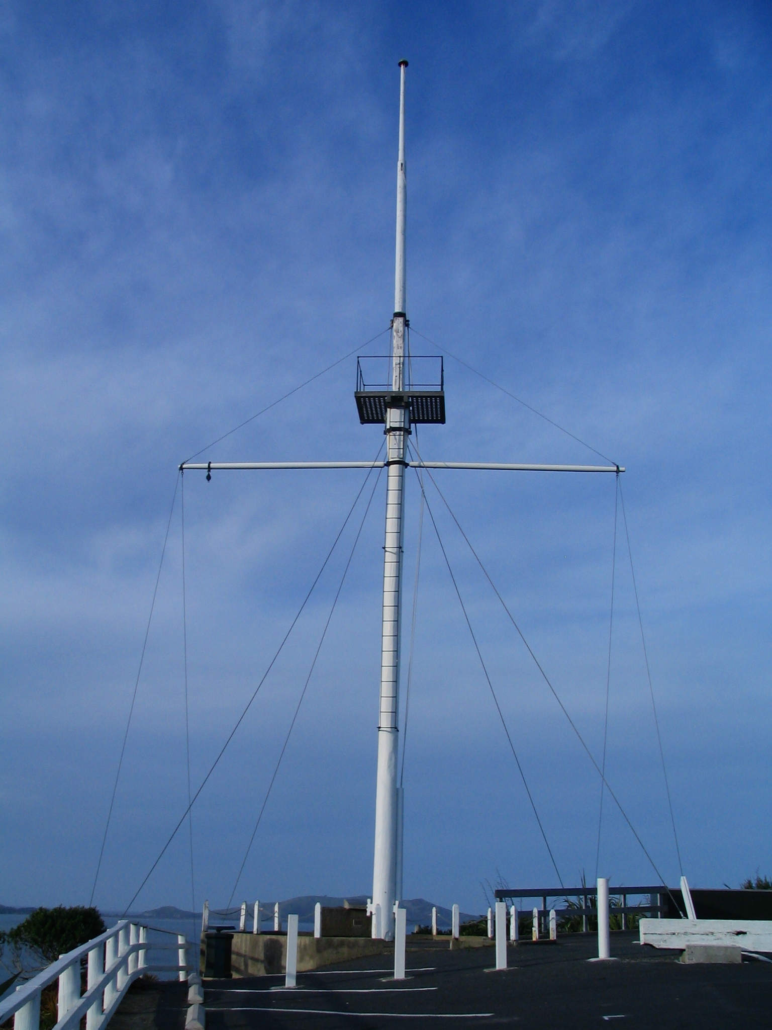 Flagstaff, Port Chalmers, Dunedin, New Zealand.